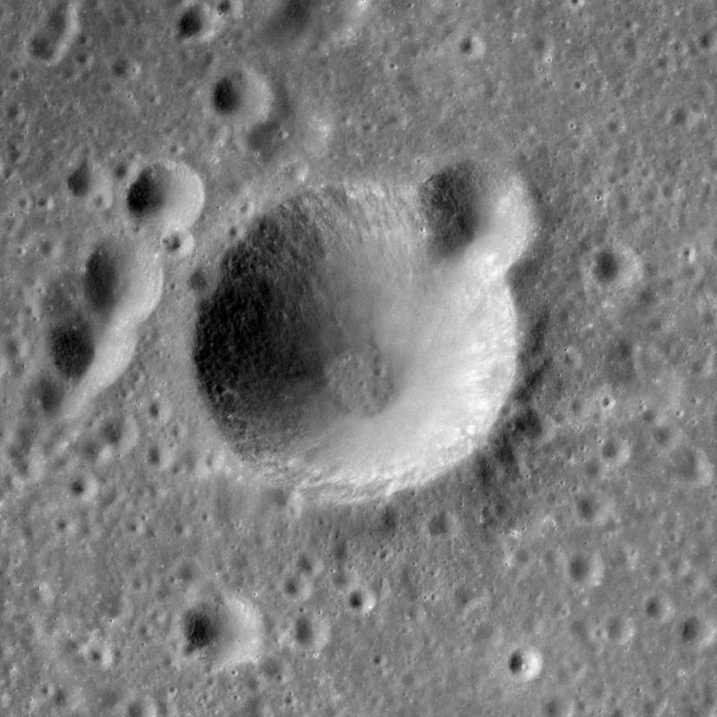 Richards crater, within Mendeleev crater, on the far side of the moon.